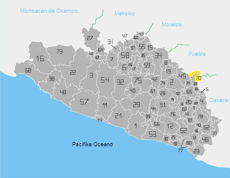 locator map 070 Guerrero